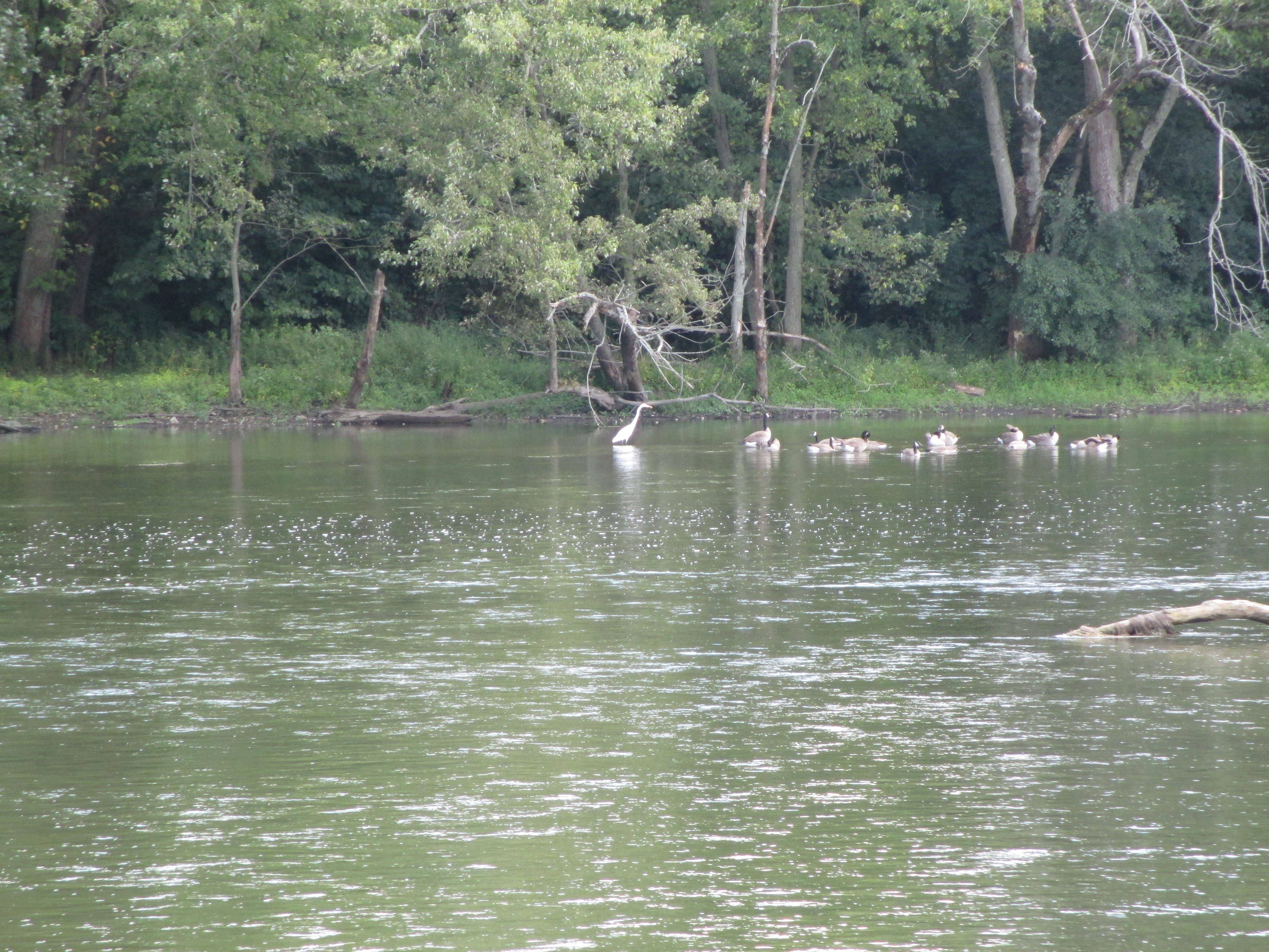 Fox River below Riverwalk below Woodland AvenuePlace: Batavia, Ilinois